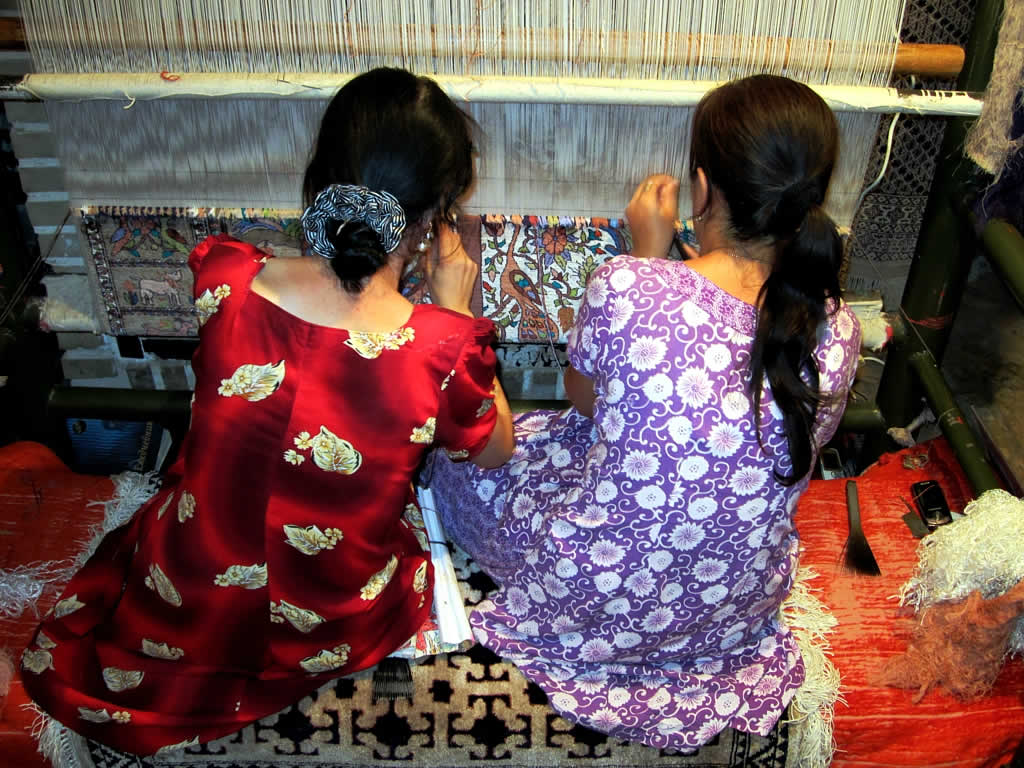 Weavers at the Registan in Samarkand, Uzbekistan.